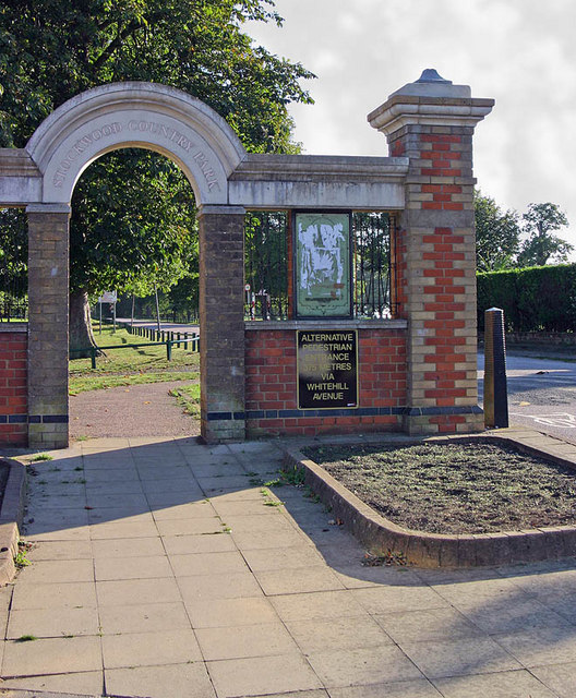 Stockwood Country Park Entrance The entrance to Stockwood Country Park - a free facility run by Luton Council